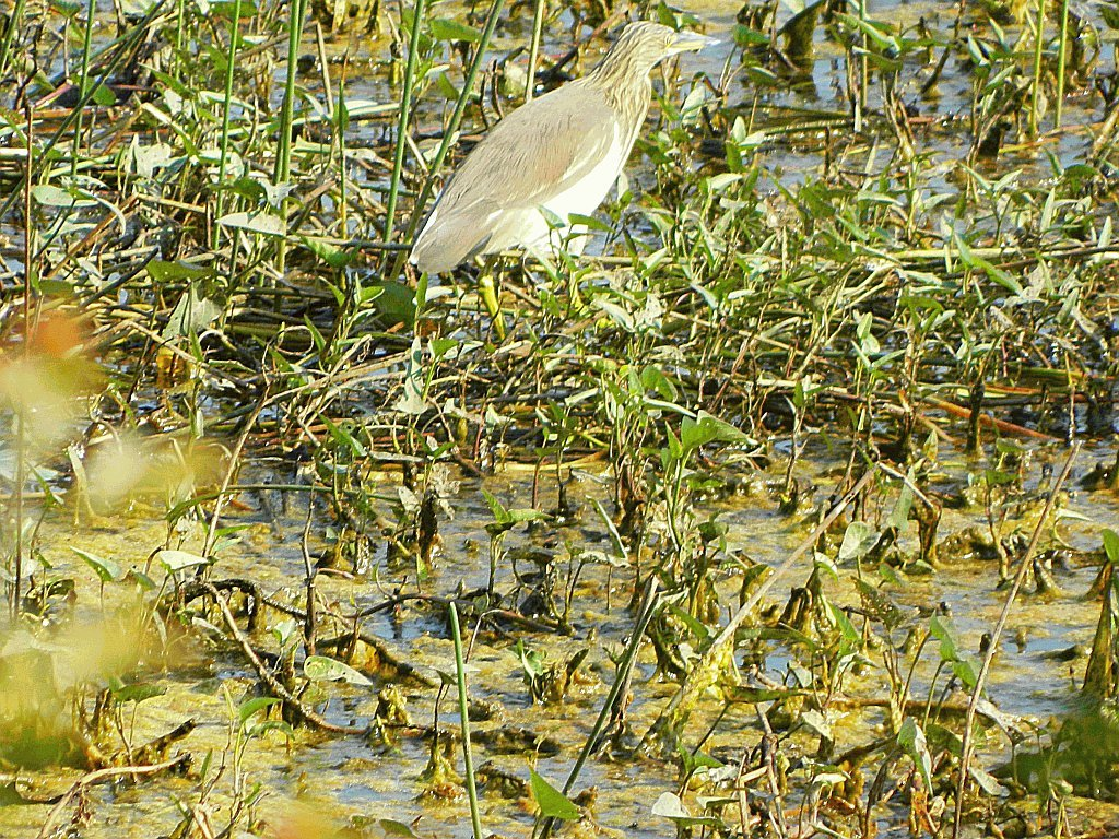 Ardeola grayii, Nawabganj bird sanctuary, Unnao